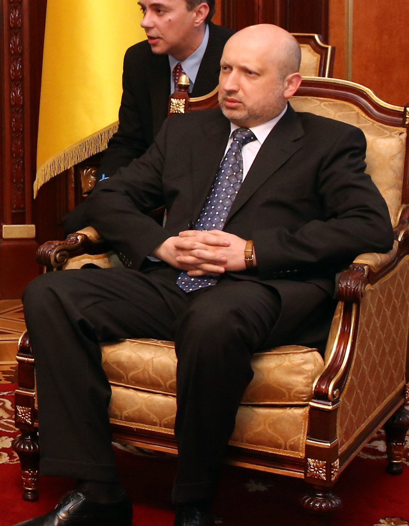 Acting Ukrainian President Turchynov. On March 20, 2014, he held a meeting with U.S. Under Secretary of State for Political Affairs Wendy Sherman at the Verkhovna Rada in Kyiv, Ukraine. [State Department photo/ Public Domain] This file has been extracted from another file: Under Secretary Sherman Meets With Acting Ukrainian President Turchynov (13309807624).jpg